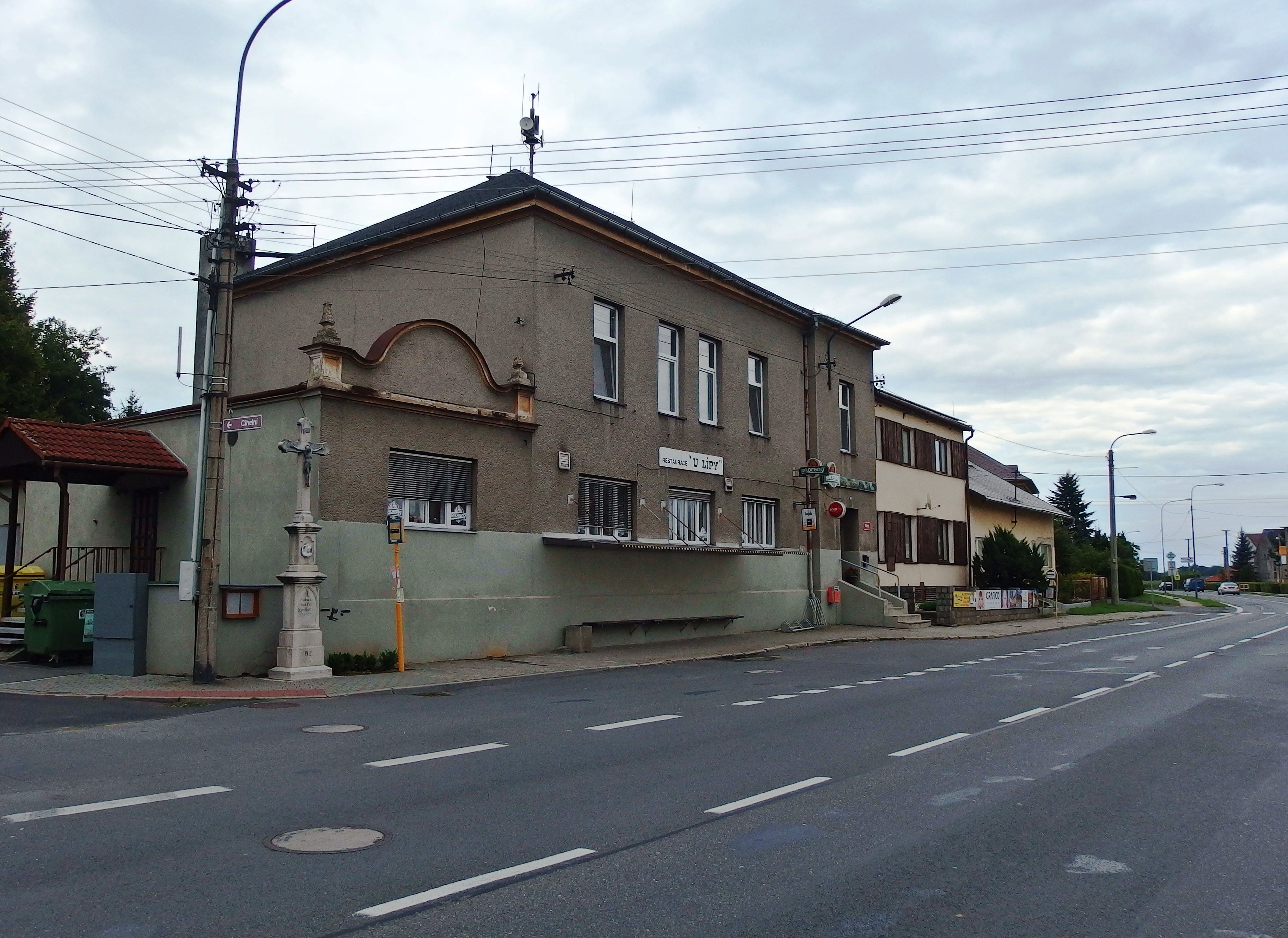 Opava, Czech Republic, part Malé Hoštice.